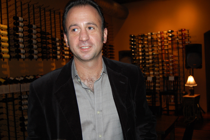 Jeremy Parzen at Vino Vino, Austin, Texas, Kermit Lynch event